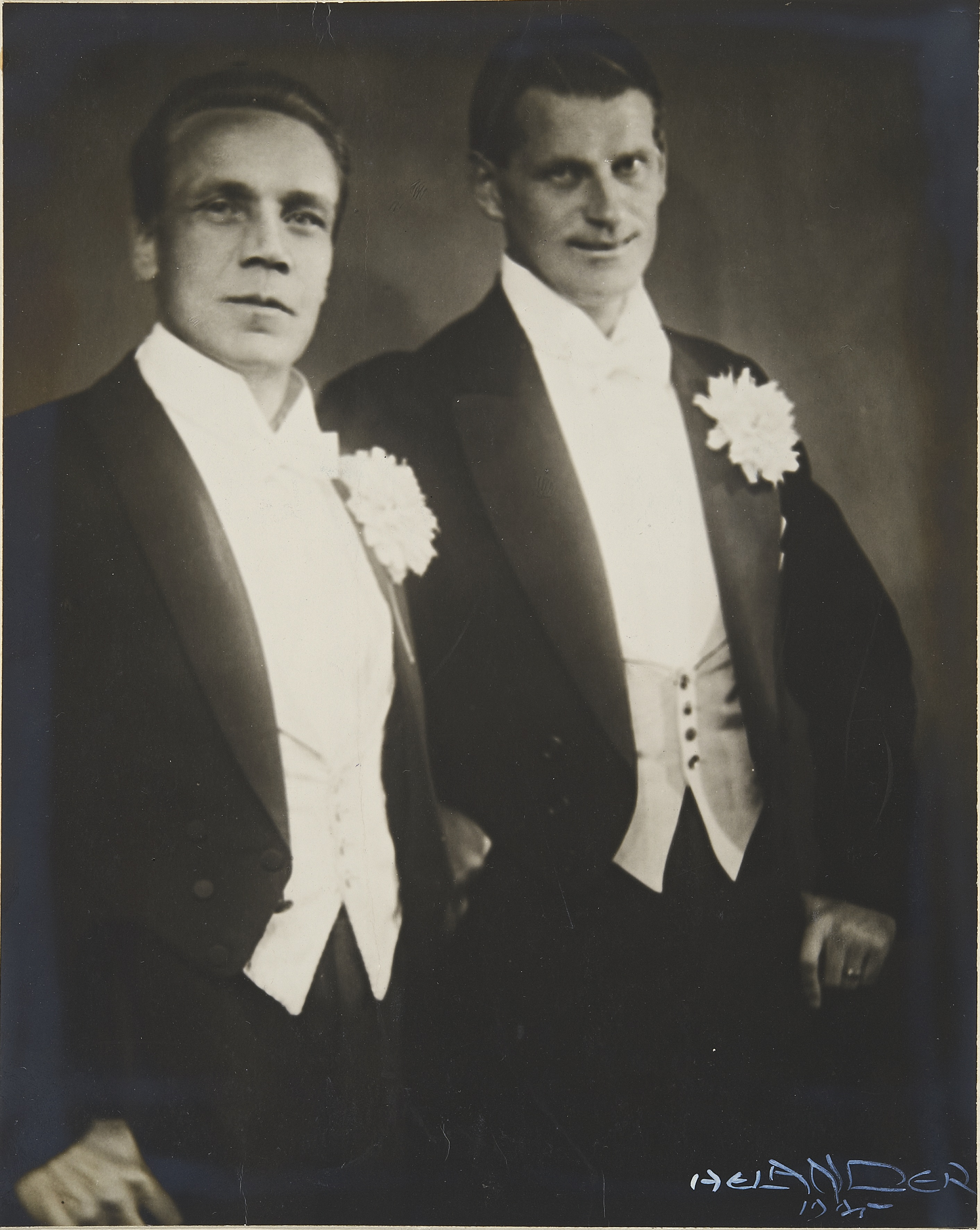 Opera singers Toivo Louko (left) and Yrjö Somersalmi in 1925.